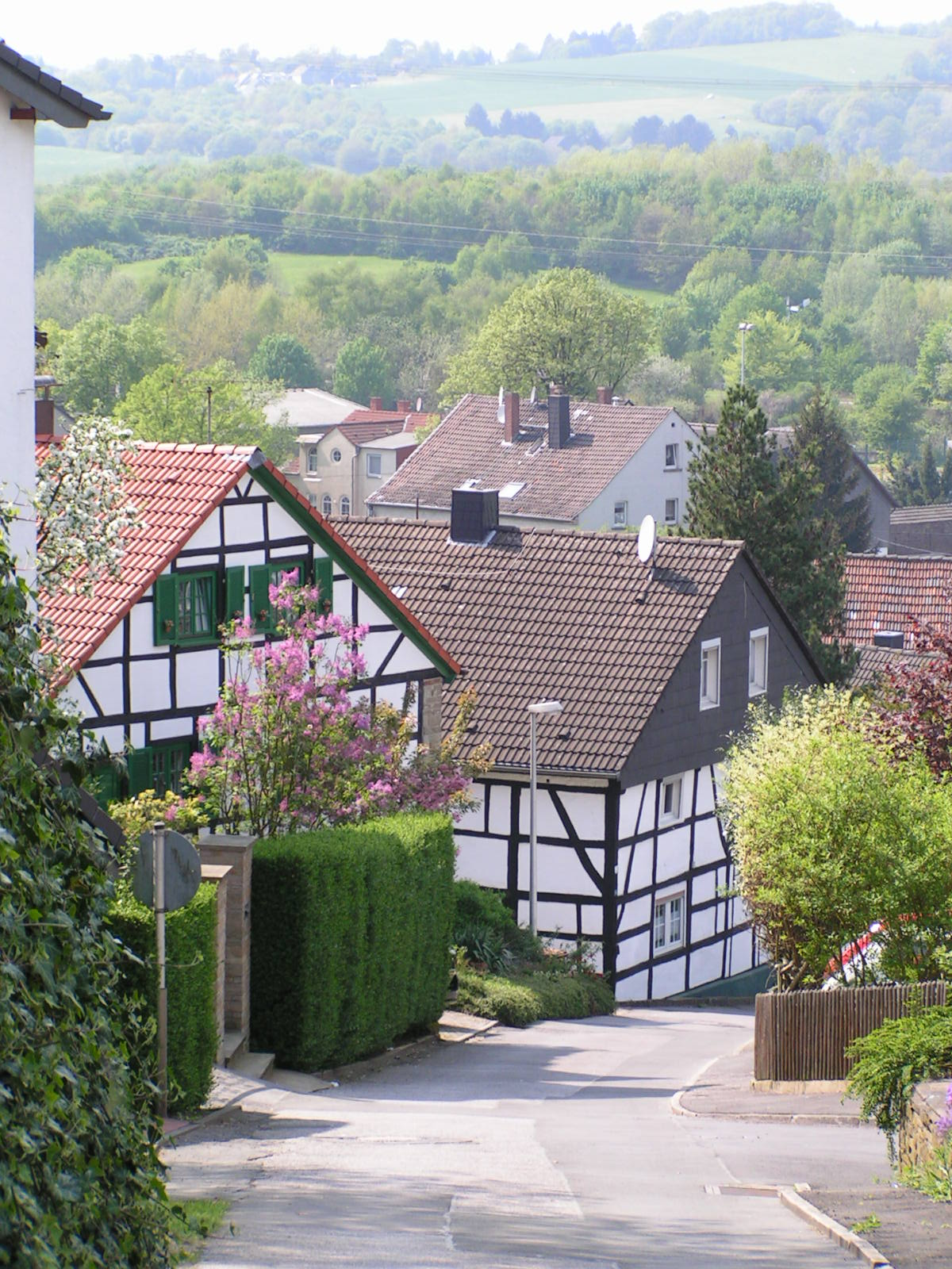 Some old timbered house in Witten-Herbede in the Ruhr-Area Date: May 2006, Witten, Germany Author: Maschinenjunge Licence: see below.